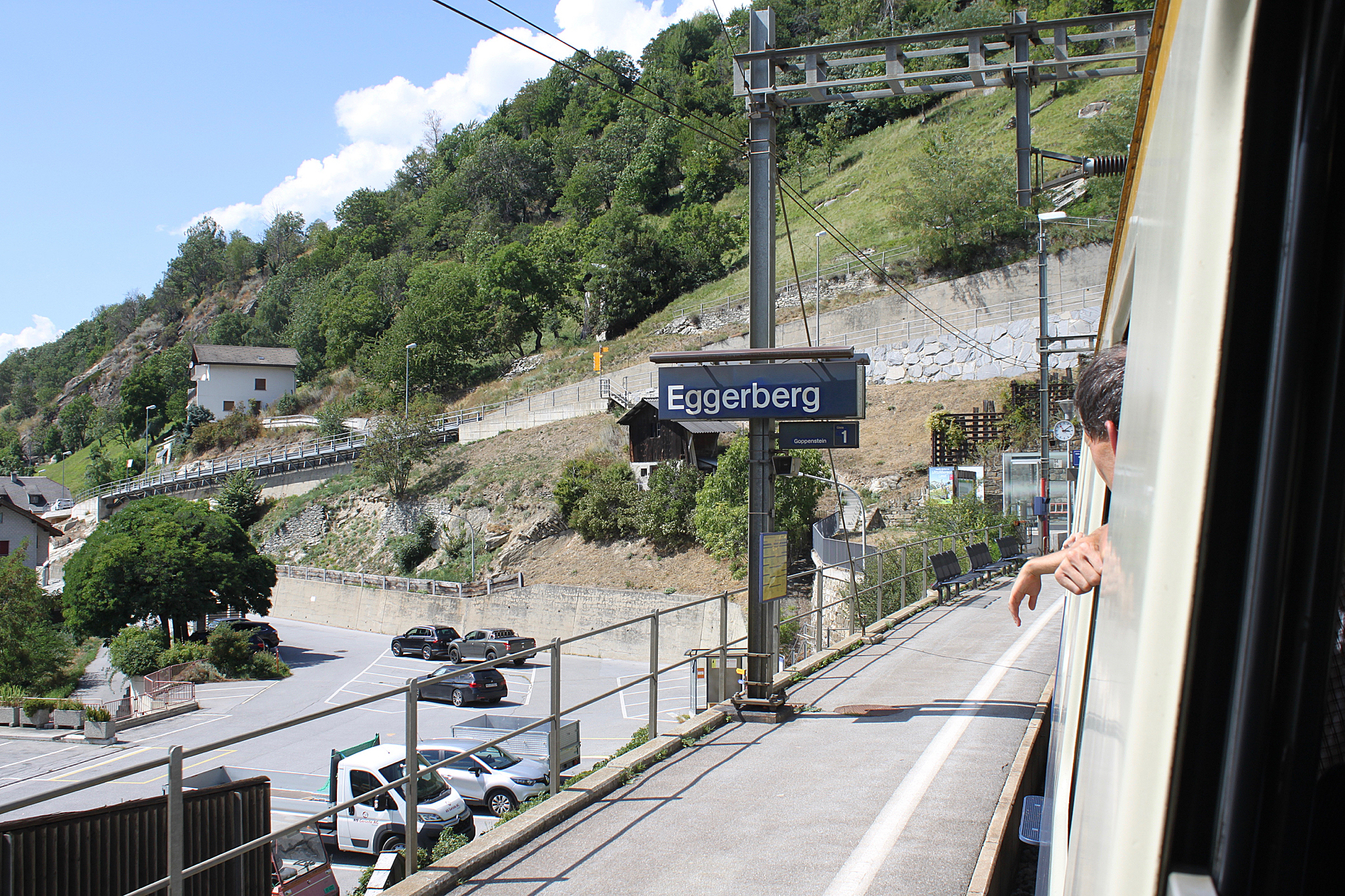 Eggerberg railway station.